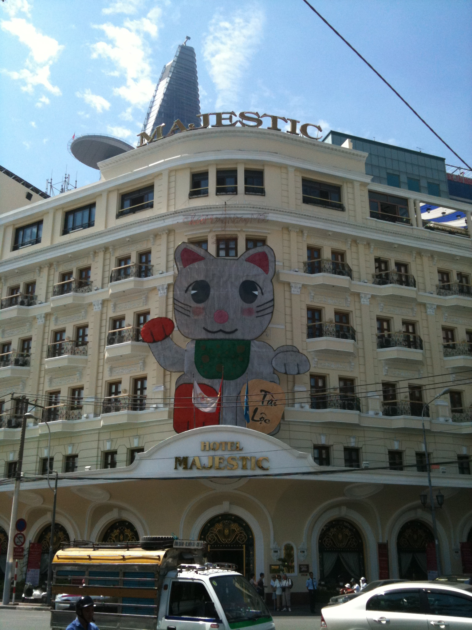 The front face of the Hotel Majestic, Ho Chi Minh City, Vietnam, decorated for Tet 2011 (the year of the Cat). The Bitexco Tower is in the background.